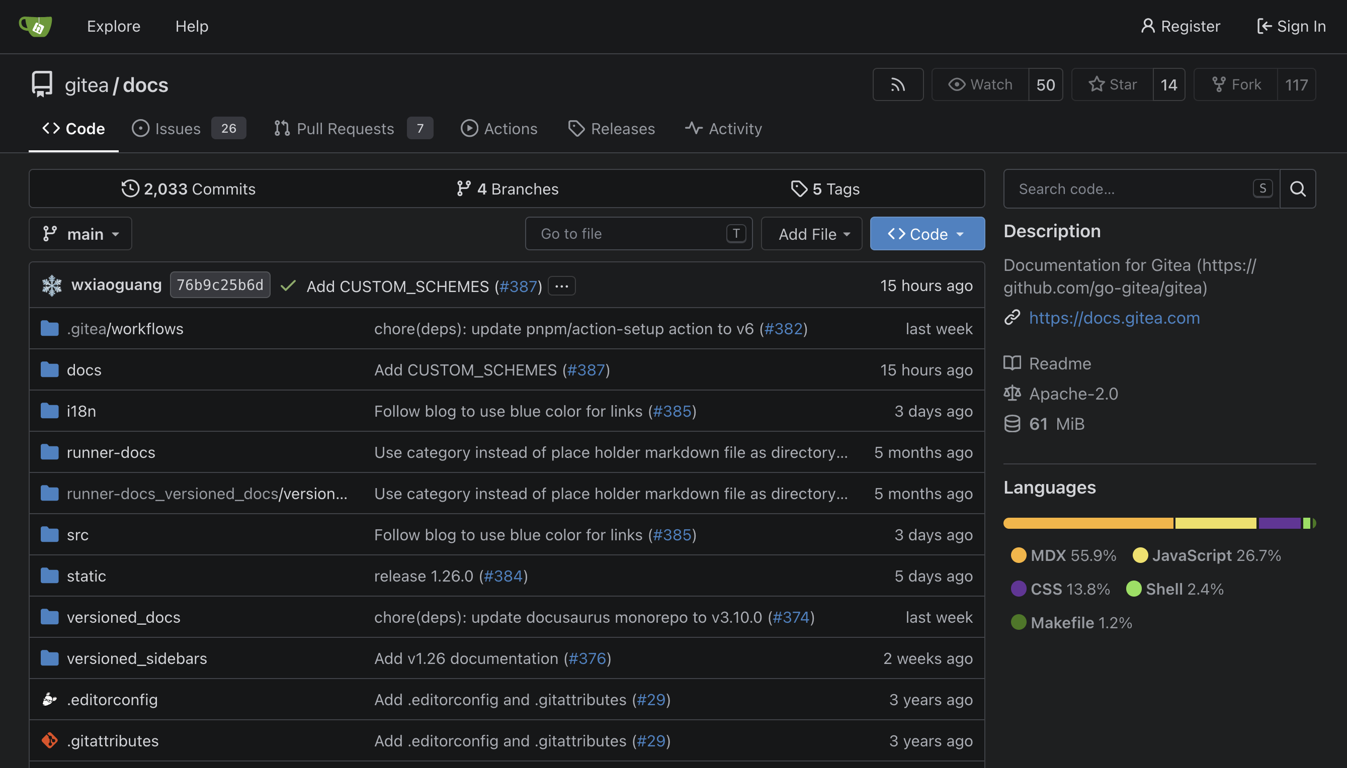 This is a screenshot of a Gitea code repository